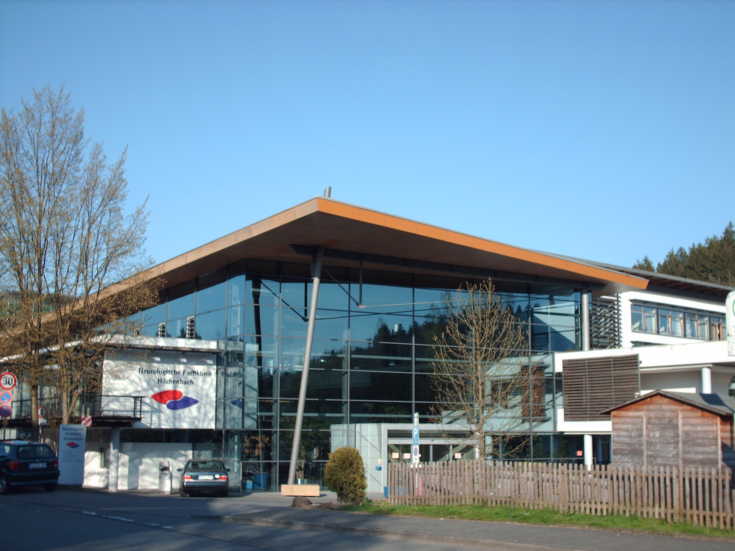 Hilchenbach clinic, Hilchenbach, Germany check usage